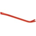 Crowbar